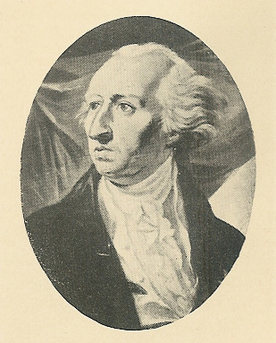 Carl August Struensee von Carlsbach. Brother of Johann Friedrich Struensee.